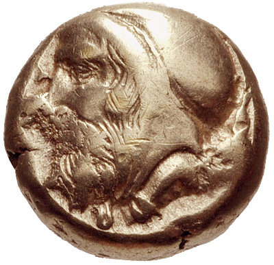 Coin of Tissaphernes, an Persian statesman and soldier.